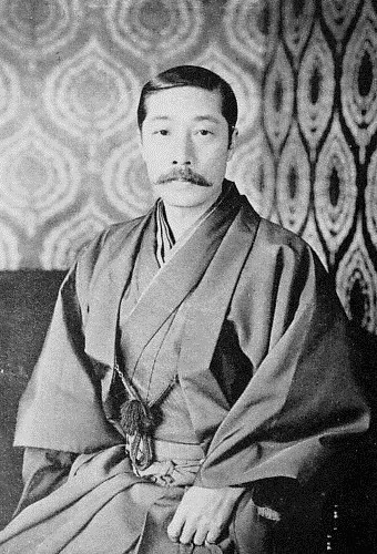 Sadayuki Umekoji